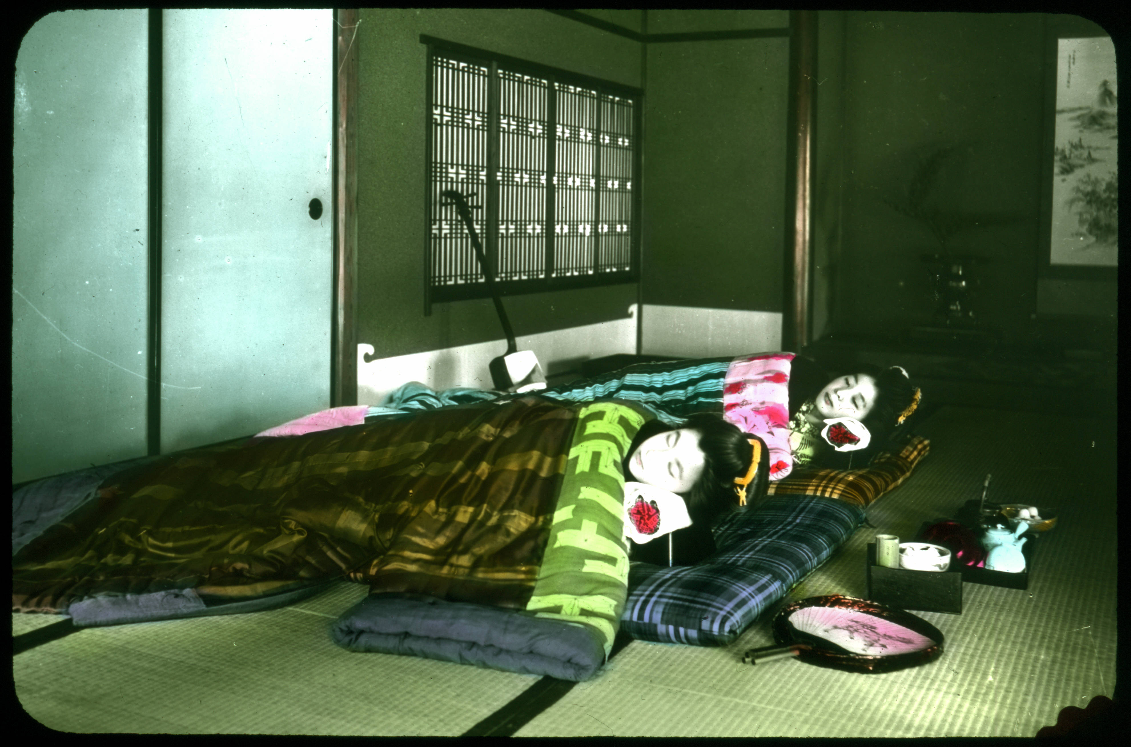 Item is a photographic glass-plate transparency; part of a set of colour-tinted transparencies depicting life in Japan ca. 1910, including scenery, street scenes, workers, farming, fishing, silk production, stone carvers, wood carvers, metal workers, potters, and artists.